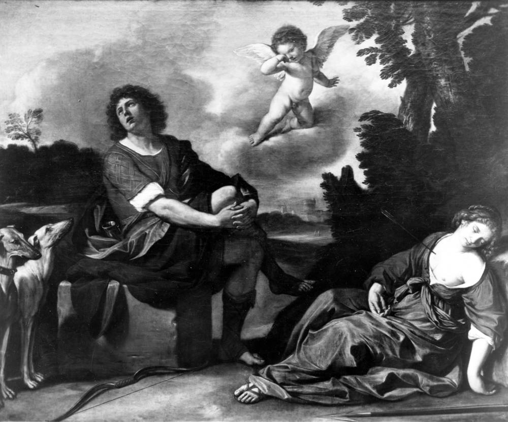 'Cephalus and Procris', by Guercino. This painting was part of the collections of the Gemäldegalerie Alte Meister in Dresden and it was destroyed during the Second World War, in 1945. - Dimensions: 207 x 252 cm - Oil on canvas